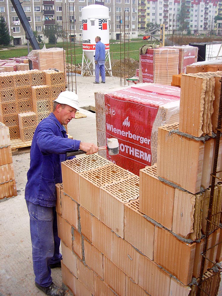 Porotherm - murivo